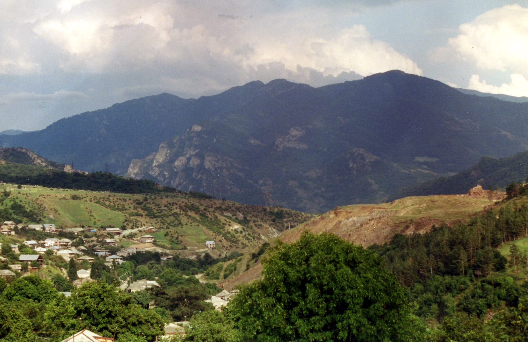 View of Haghartsin Village from the foothills, Tavush, Armenia.